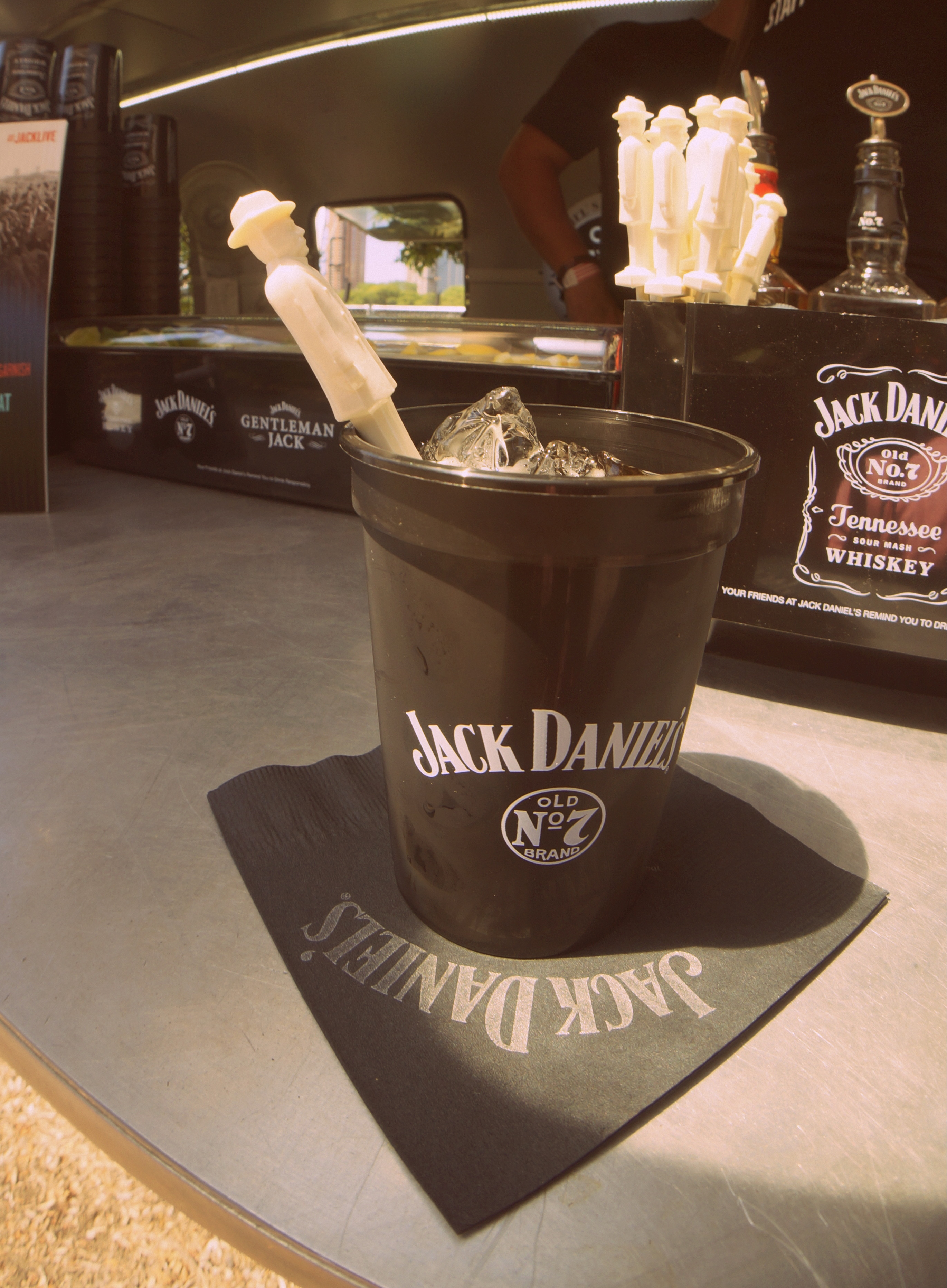 A cocktail served in a Jack Daniels cup with a Jack Daniels stirrer and a Jack Daniels napkin.